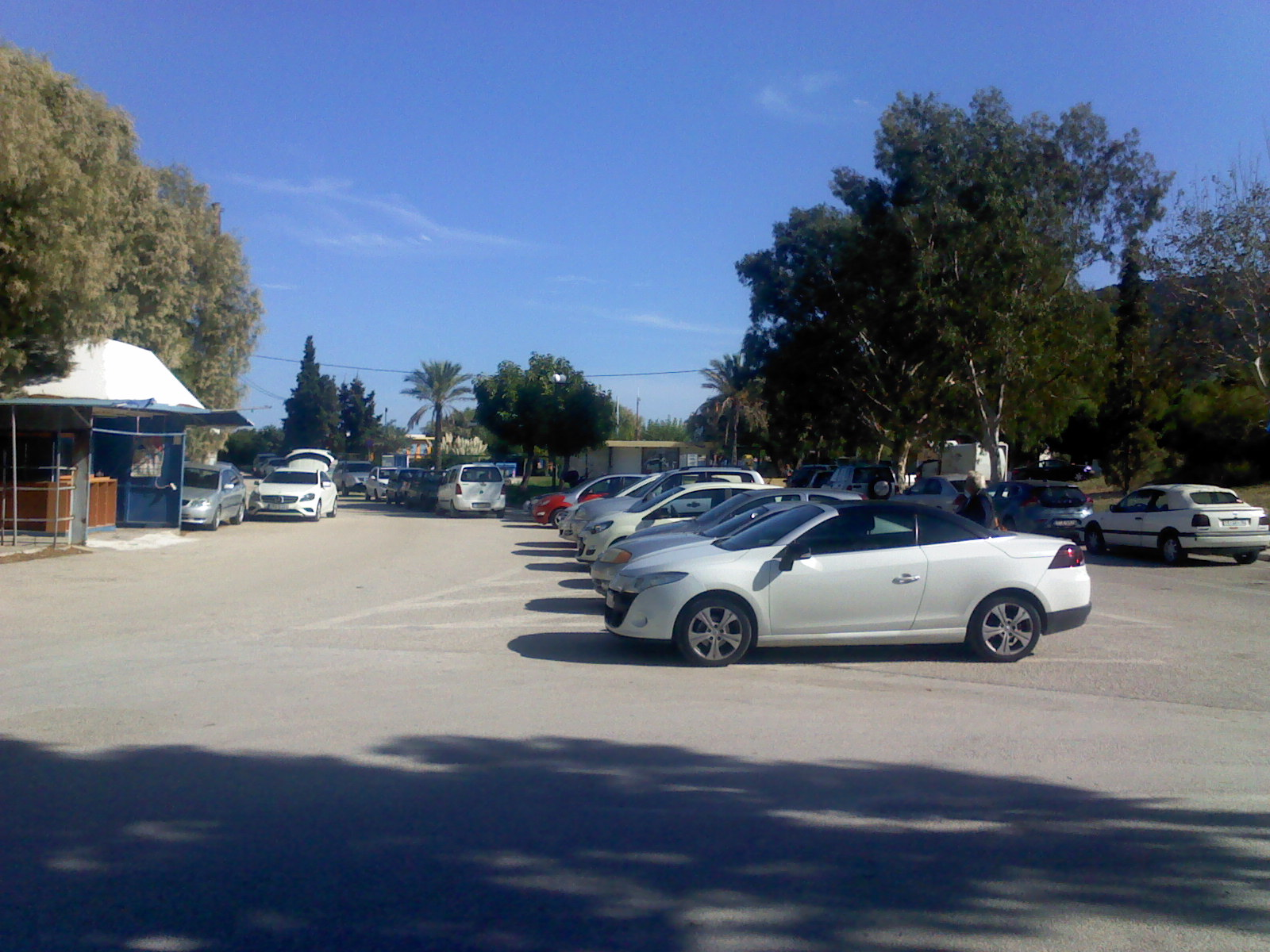 Avlaki Porto Rafti